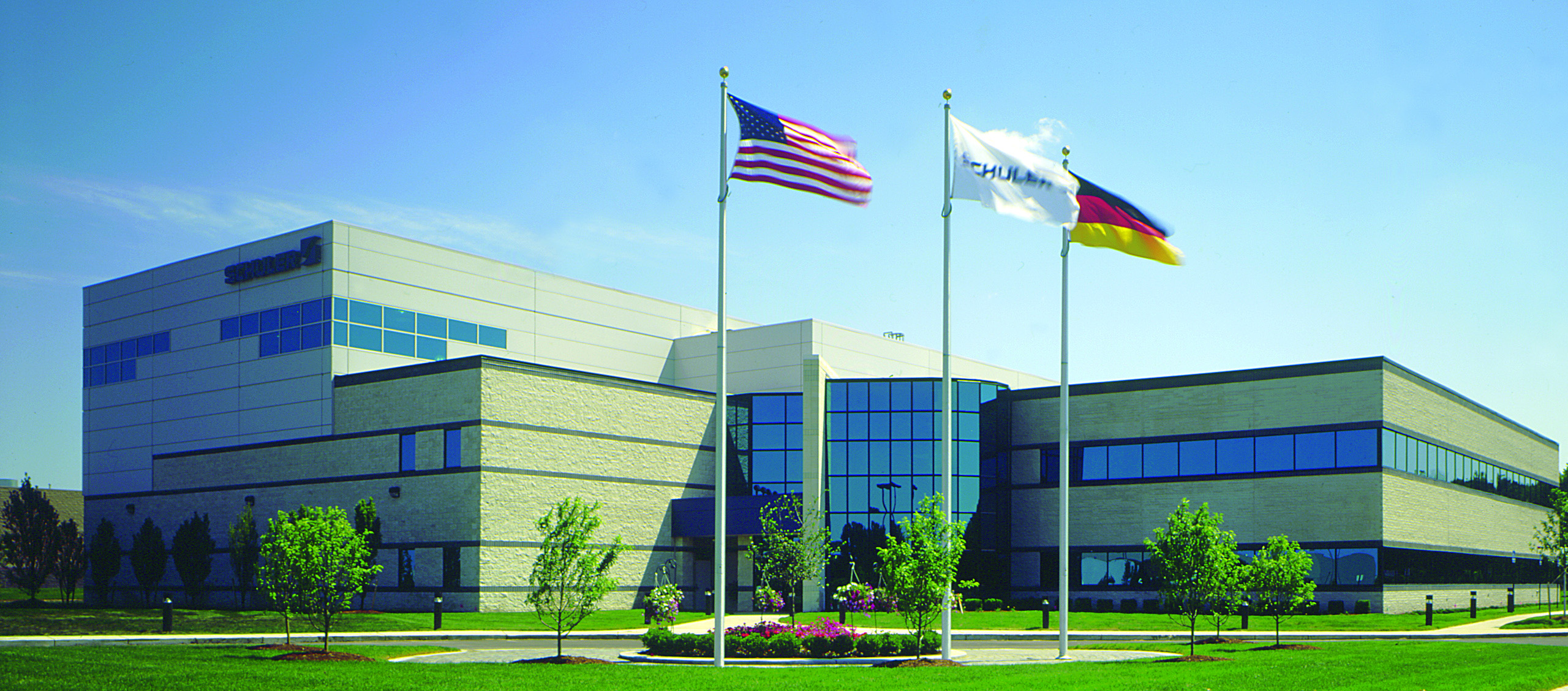 Schuler Inc. mit Sitz in Canton (Michigan)